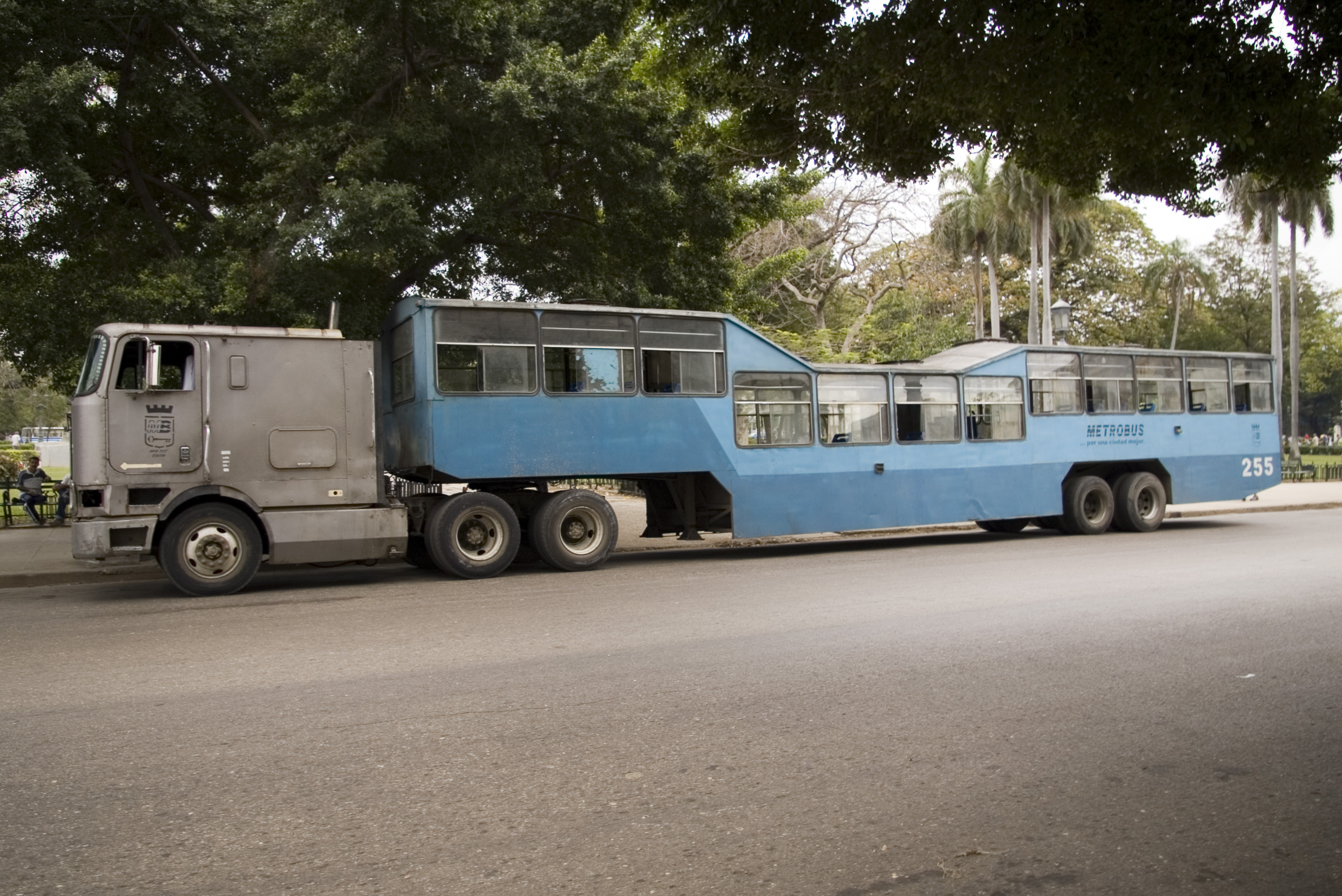 One of the infamous camel buses in Havana, Cuba.